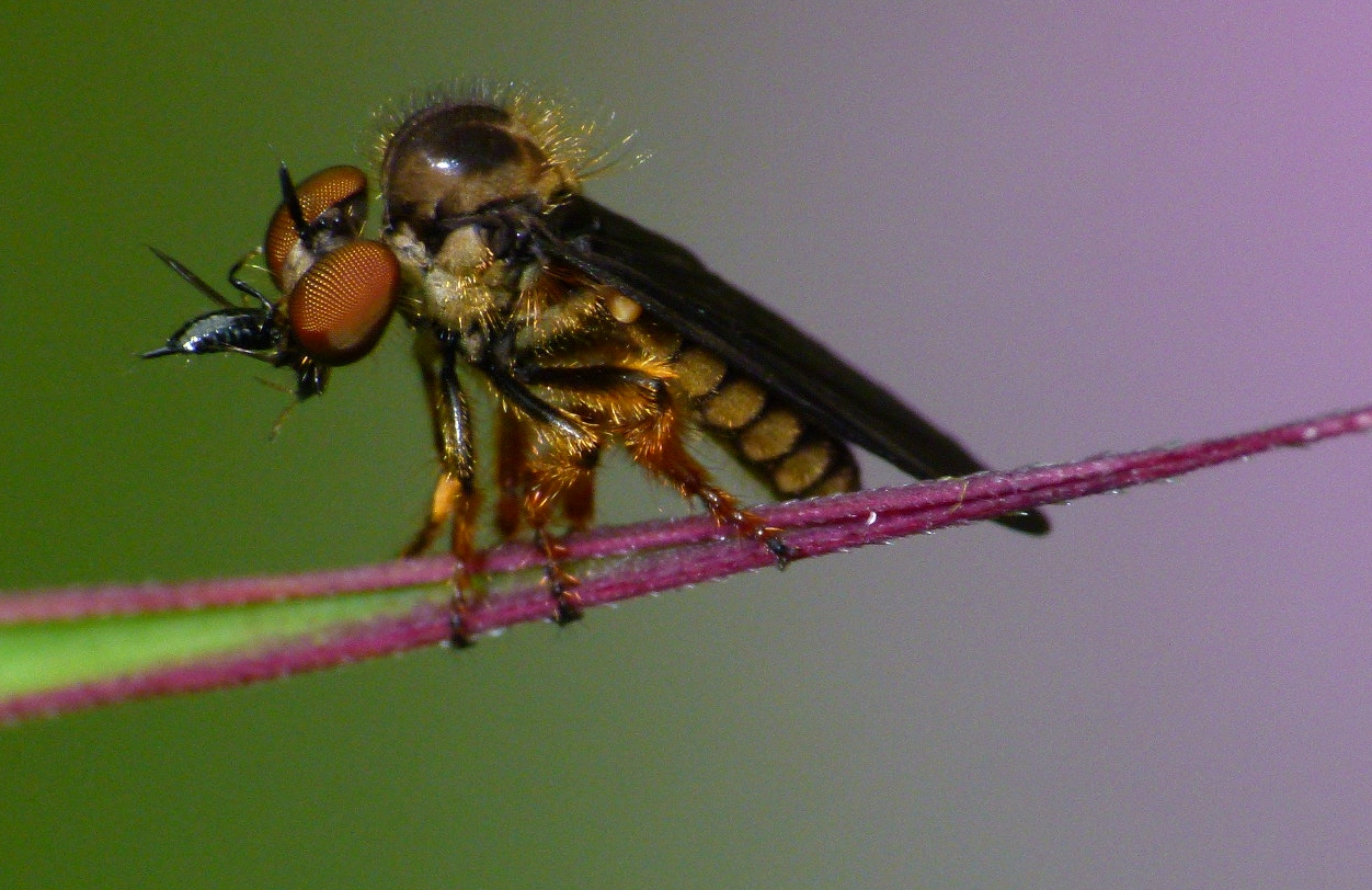 Unidentified Asilid with thrips. Wynaad, India